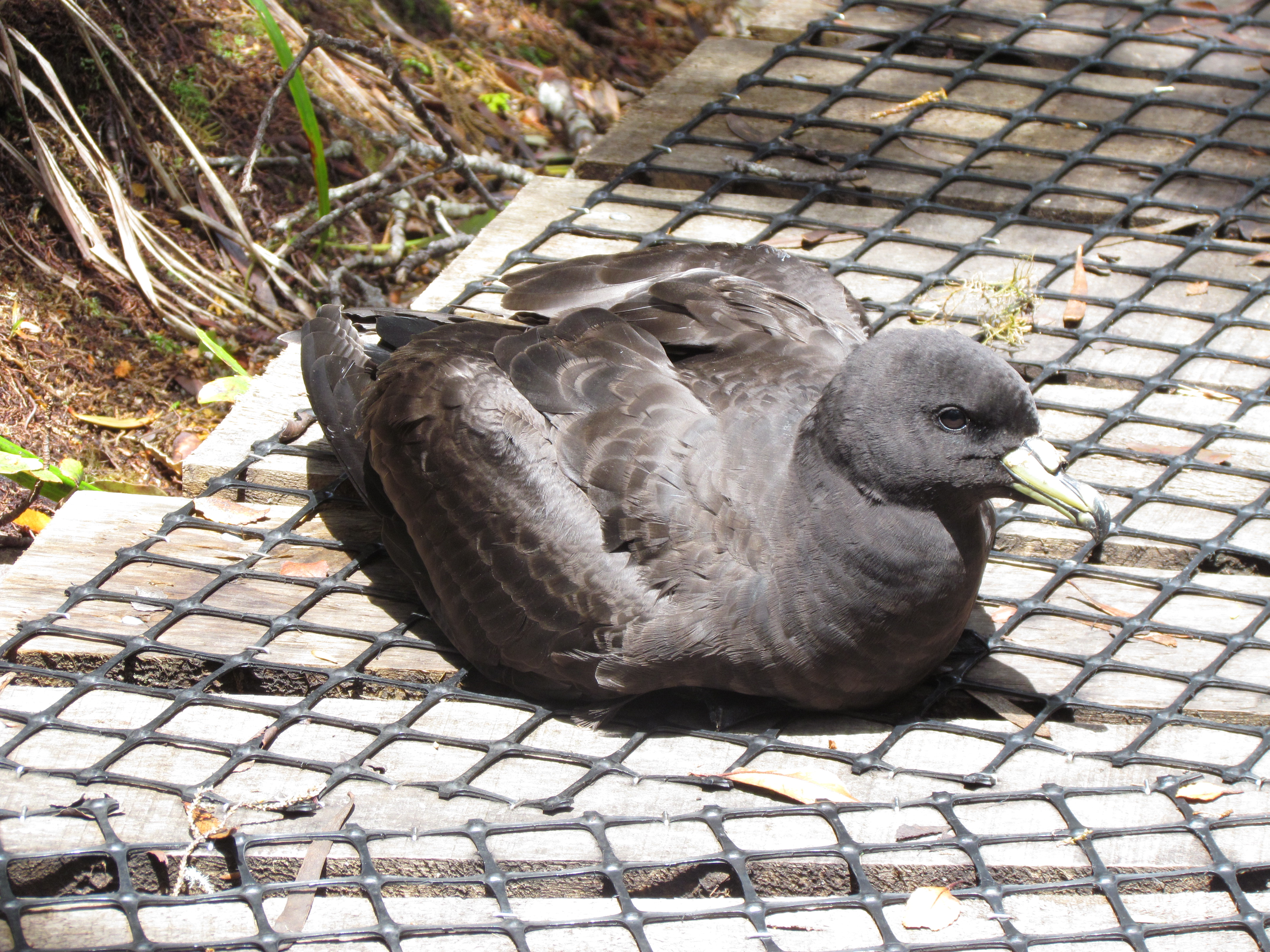 black petrel on track up to Mount Hobson, Great Barrier Island